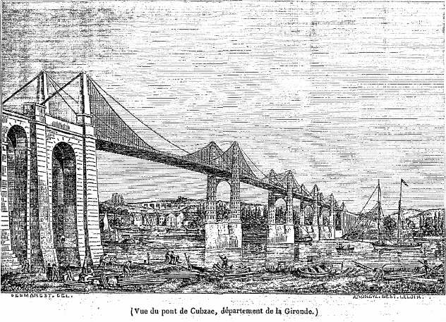 A sketch of the suspension bridge of Cubzac-les-Ponts.